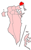 Map of Bahrain showing Al Muharraq municipality. The municipalities were dissolved in 2002 and replaced with governorates.